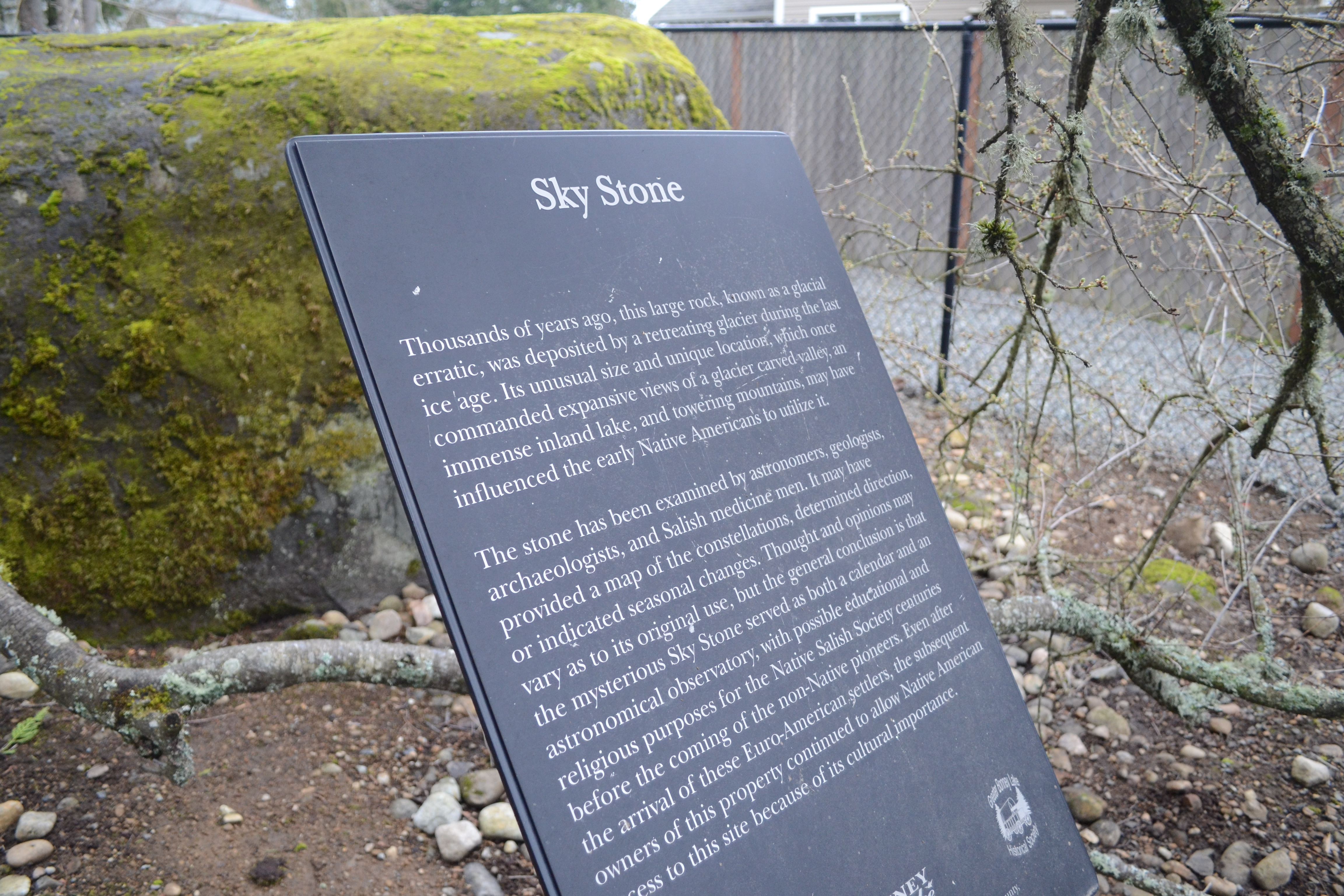 Sign on the monument of the Skystone.